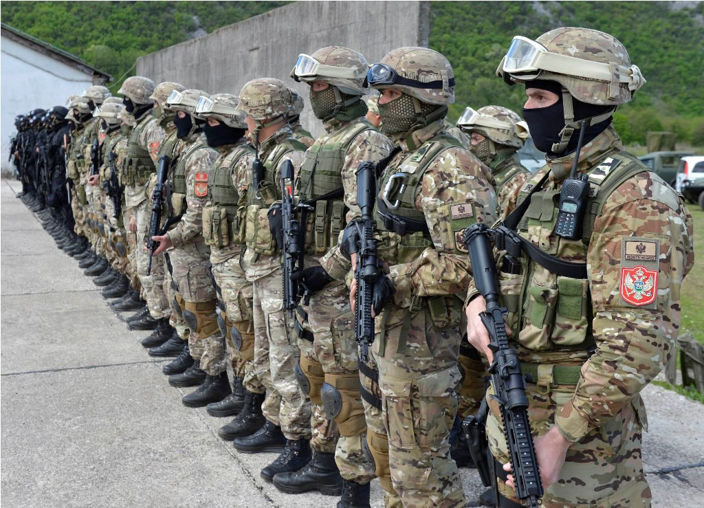 Military Montenegro